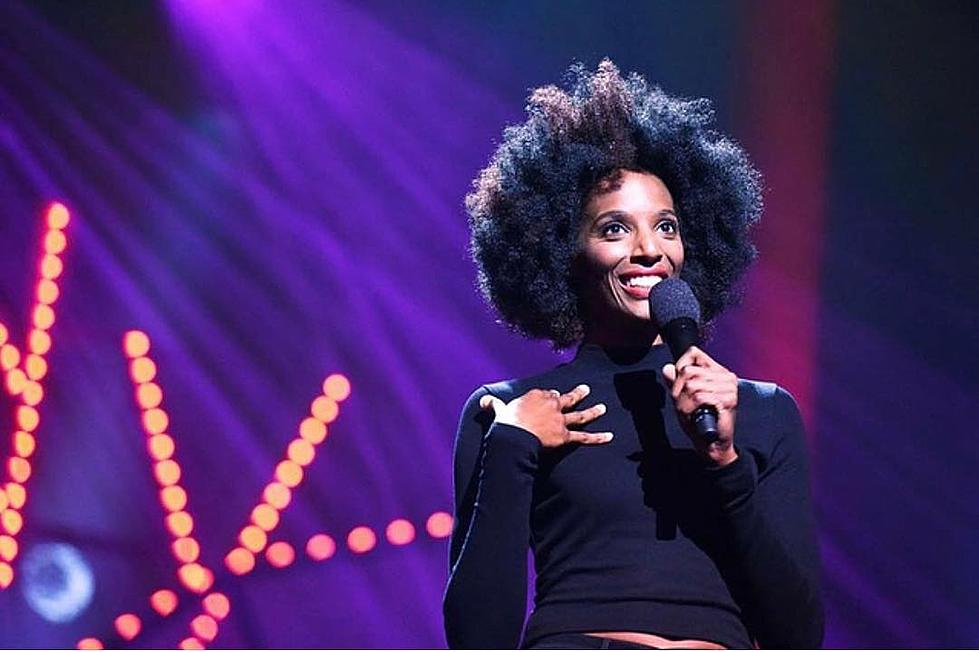 Zainab Johnson, smiling with a microphone in her left hand and her right hand on her right shoulder. She has an afro. There are neon purple lights behind her. She appears to be on stage.